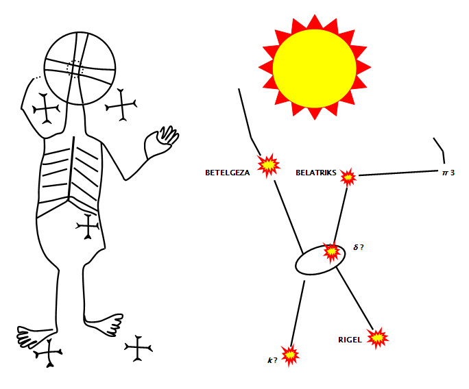 Relief of St. George (in slovenian: Sv. Jurij) at Hodiše/Keutschach, austrian Carynthia, and its comparison to the constellation of Orion. At the time when this relief was sculptured, Carynthia was settled mainly with the population of Slavs, closely related to modern Slovenians. Relief could be response to the tradition of Christians. It could also represent vegetative deity, compared to Slavic Yarilo or Yarovit